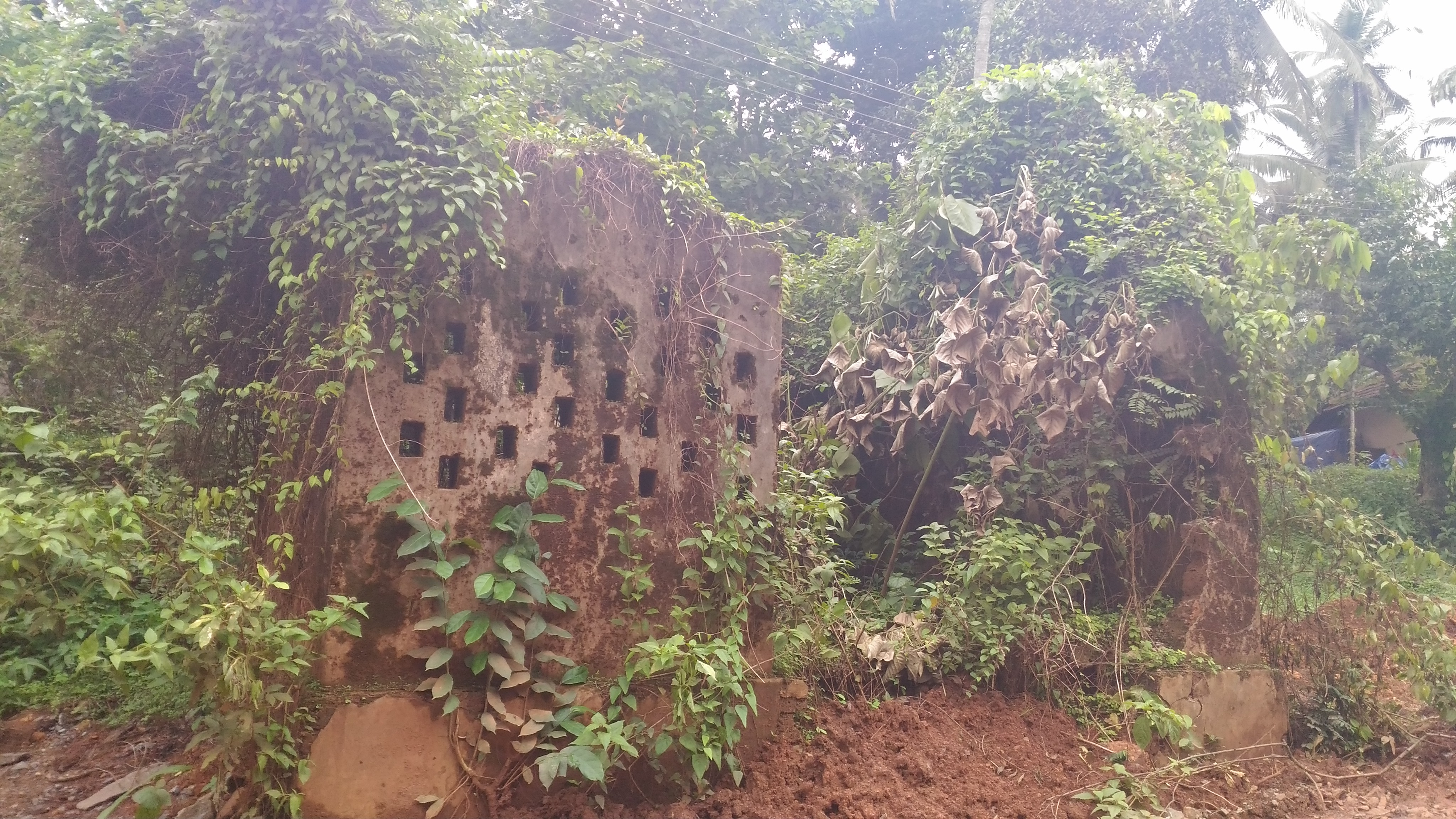 A cattle pound for keeping wandering cattle